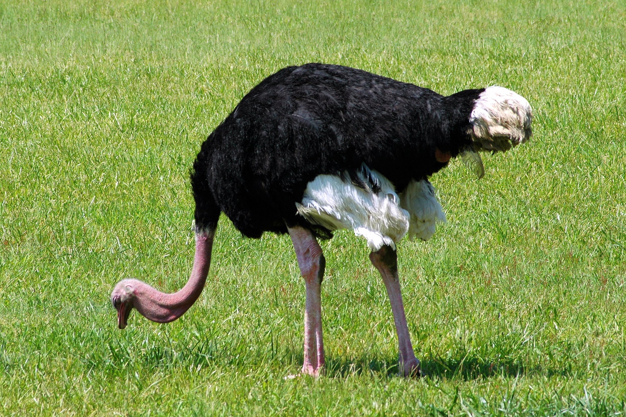 A male Ostrich at Cape May Zoo, New Jersey, USA.